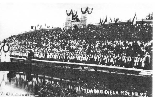 First Lithuanian song festival in Kaunas city (Lithuania), 1924 VIII 23